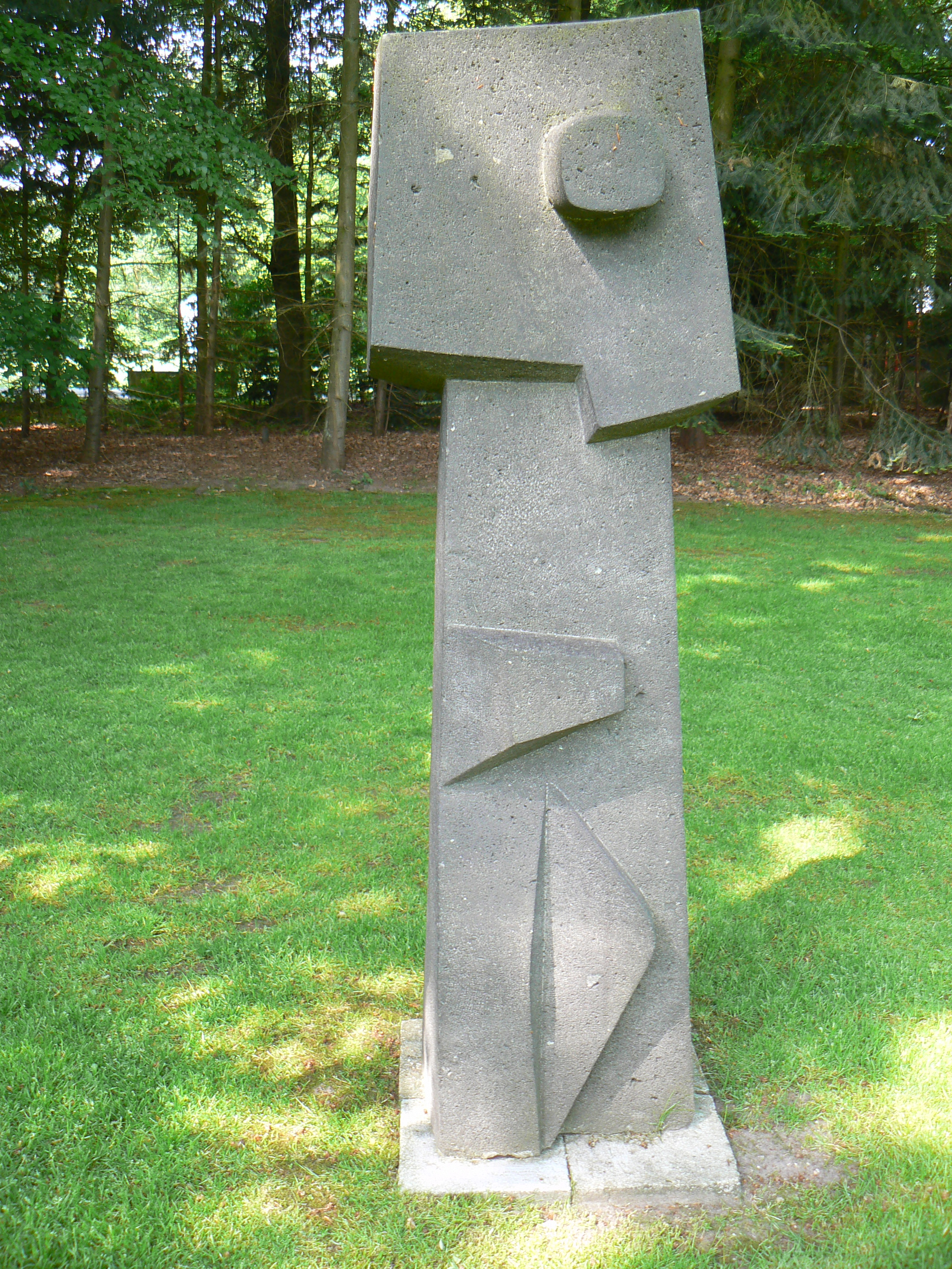 sculpture Figur I (1958) by Ödon Koch in sculpturepark KMM/The Netherlands